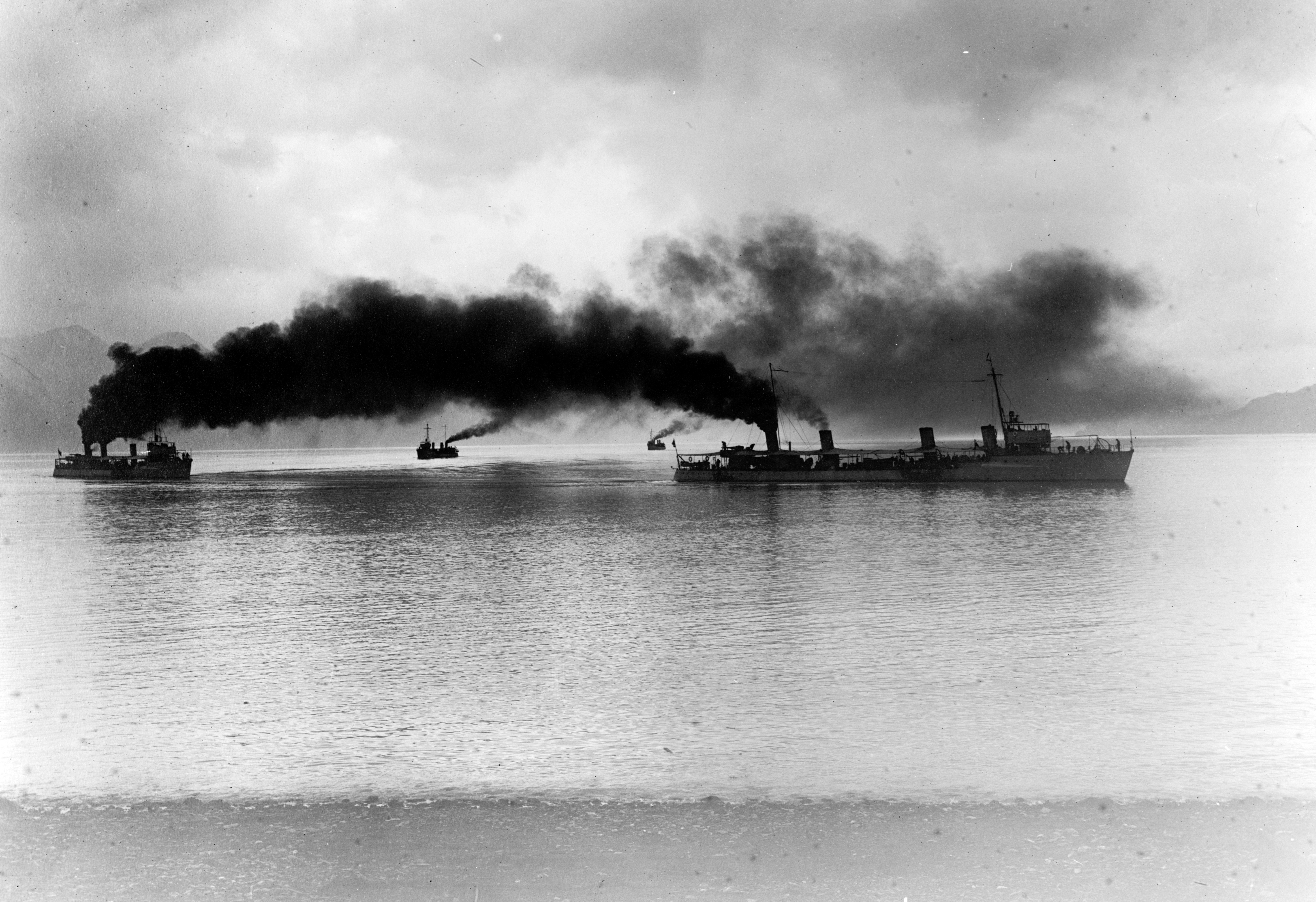 The U.S. Navy Bainbridge-class destroyers USS Paul Jones (DD-10), USS Stewart (DD-13), USS Perry (DD-11), and USS Preble (DD-12) at Seward, Alaska, circa 1916-1917.